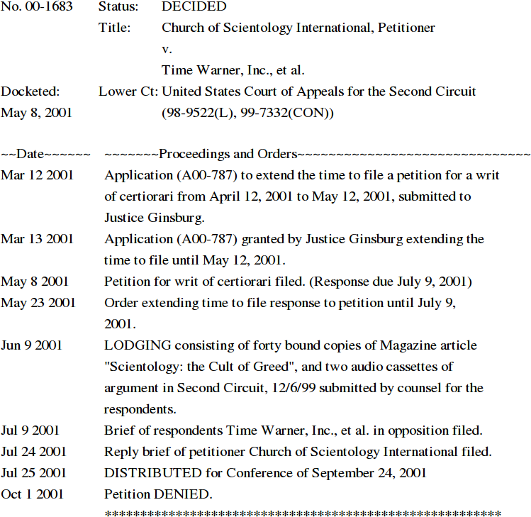 Church of Scientology International v. Time Warner, Inc., et al. (Docket)